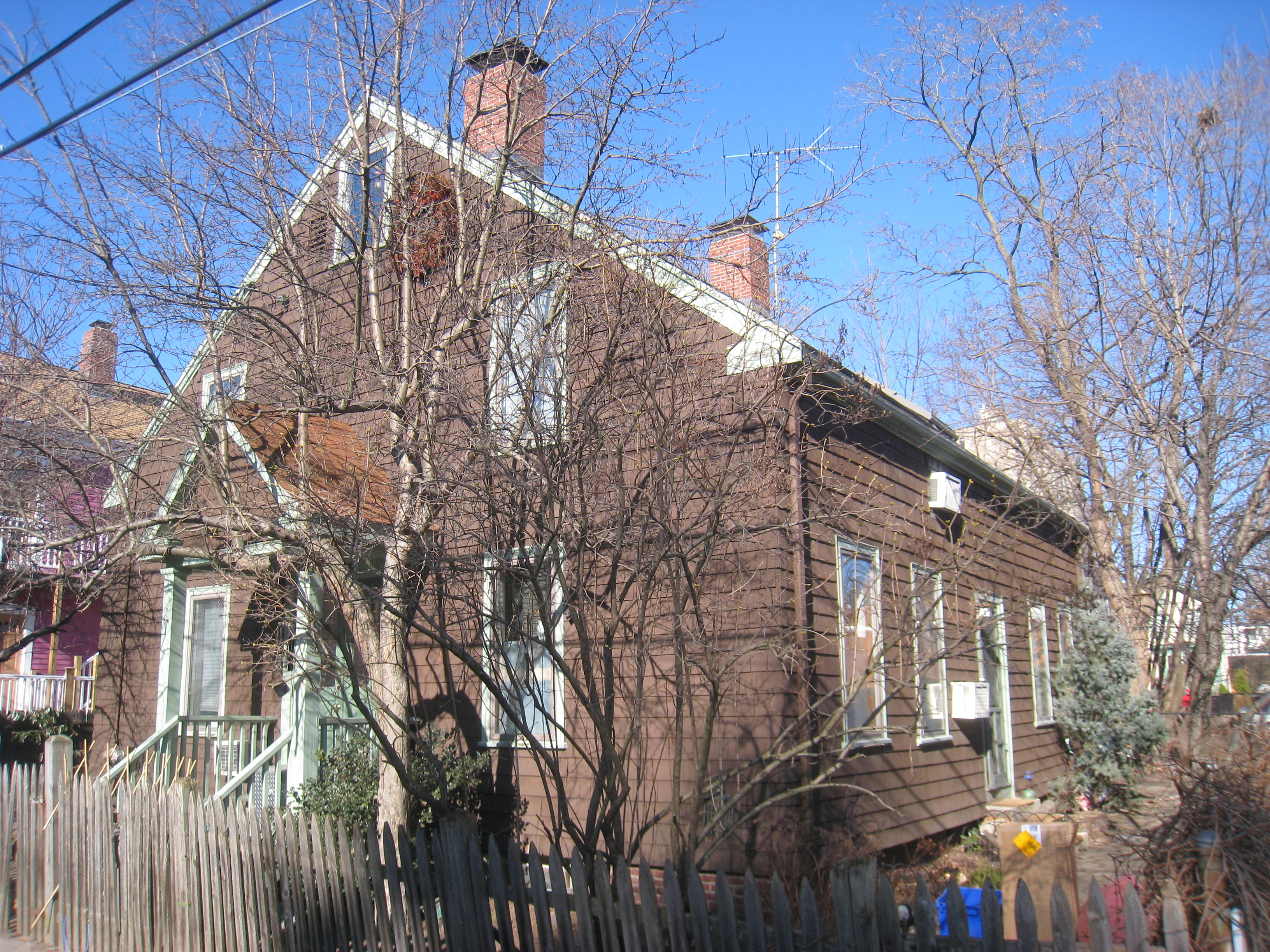 Valentine Soap Workers Cottage - 5-7 Cottage Street, Cambridge, Massachusetts, USA. This building is listed on the National Register of Historic Places.